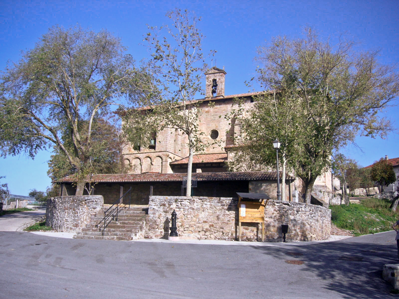 La Asunción, Arriola